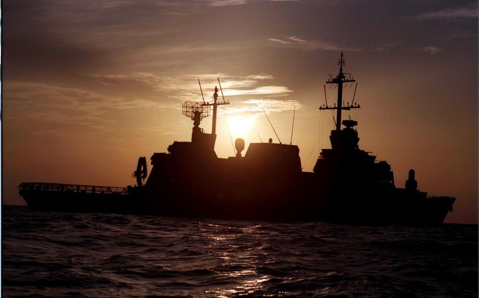 November 15, 2011 As the sun sets on an IDF naval ship, the soldiers aboard it work from dusk to dawn to ensure the safety and sovereignty of Israel's seas. With the discovery of natural gas off Israel's shore, the role of the Navy is more important than ever. Featured as Photo of the day on November 15, 2011 The Israel Defense Forces Facebook page The Israel Defense Forces blog Follow us on Twitter